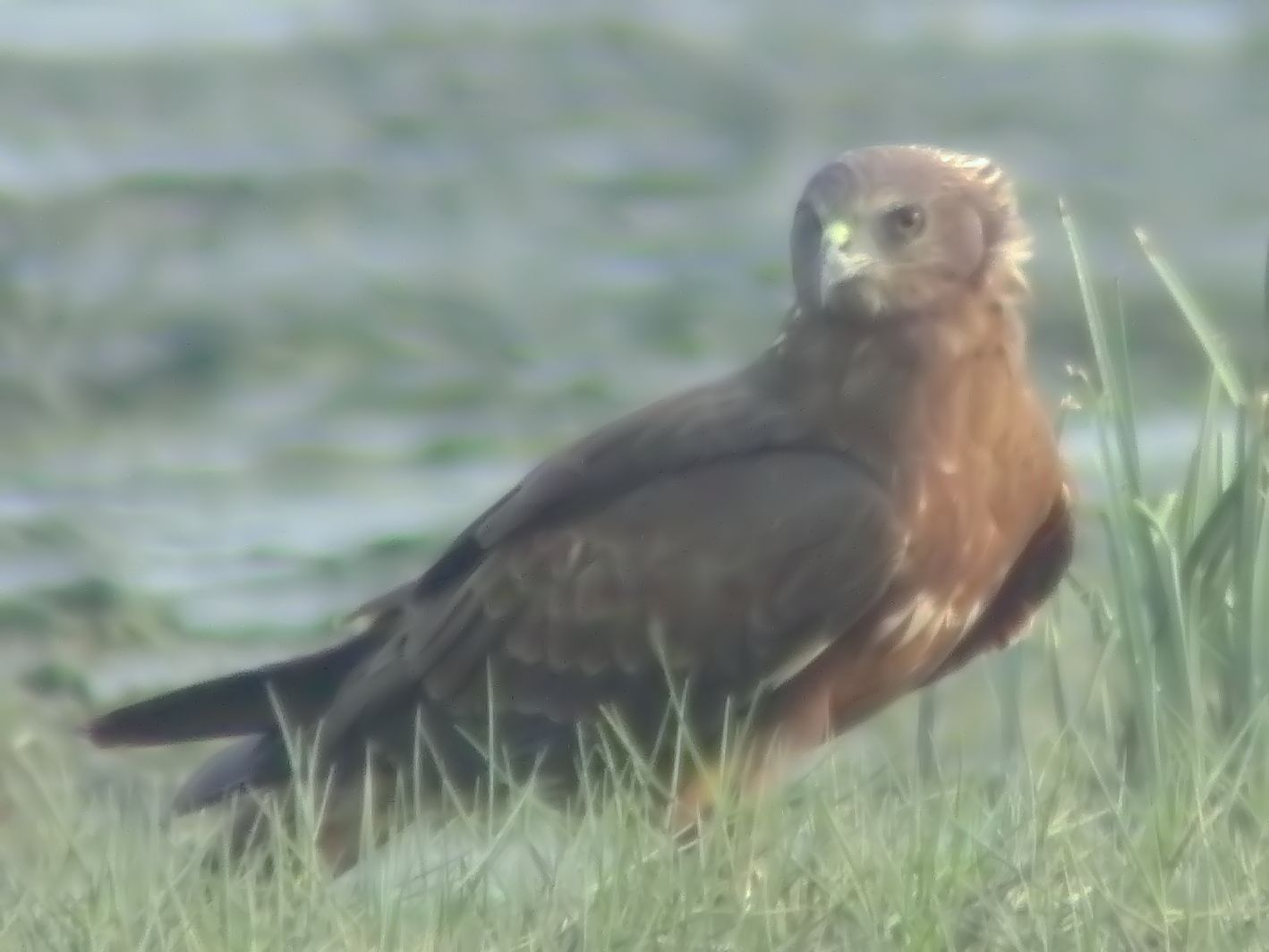 Female Eastern/Western Marsh Harrier hybrid (Circus spilonotus × aeruginosus) at the Hongkong marshes